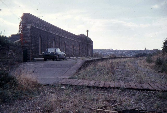 Mangotsfield Junction Dismantled station buildings, and track removed